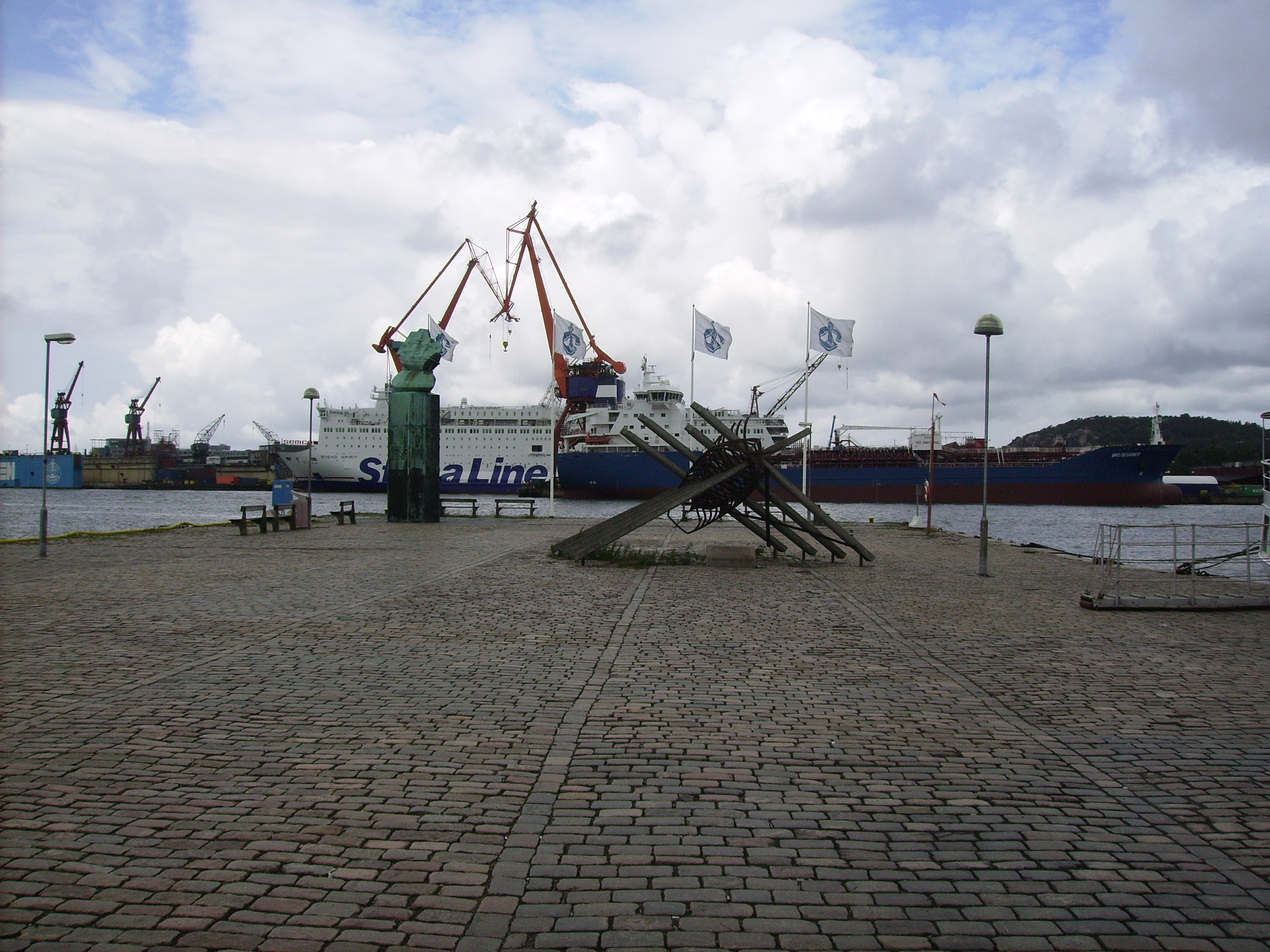 Picture of Stenpiren in Gothenburg.